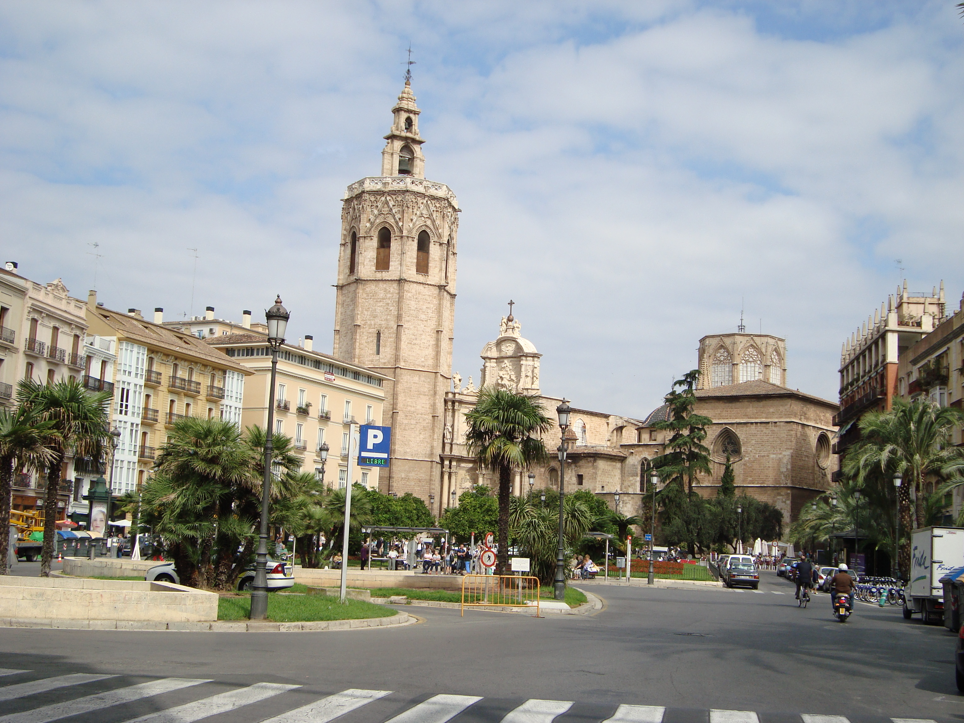 Valencie